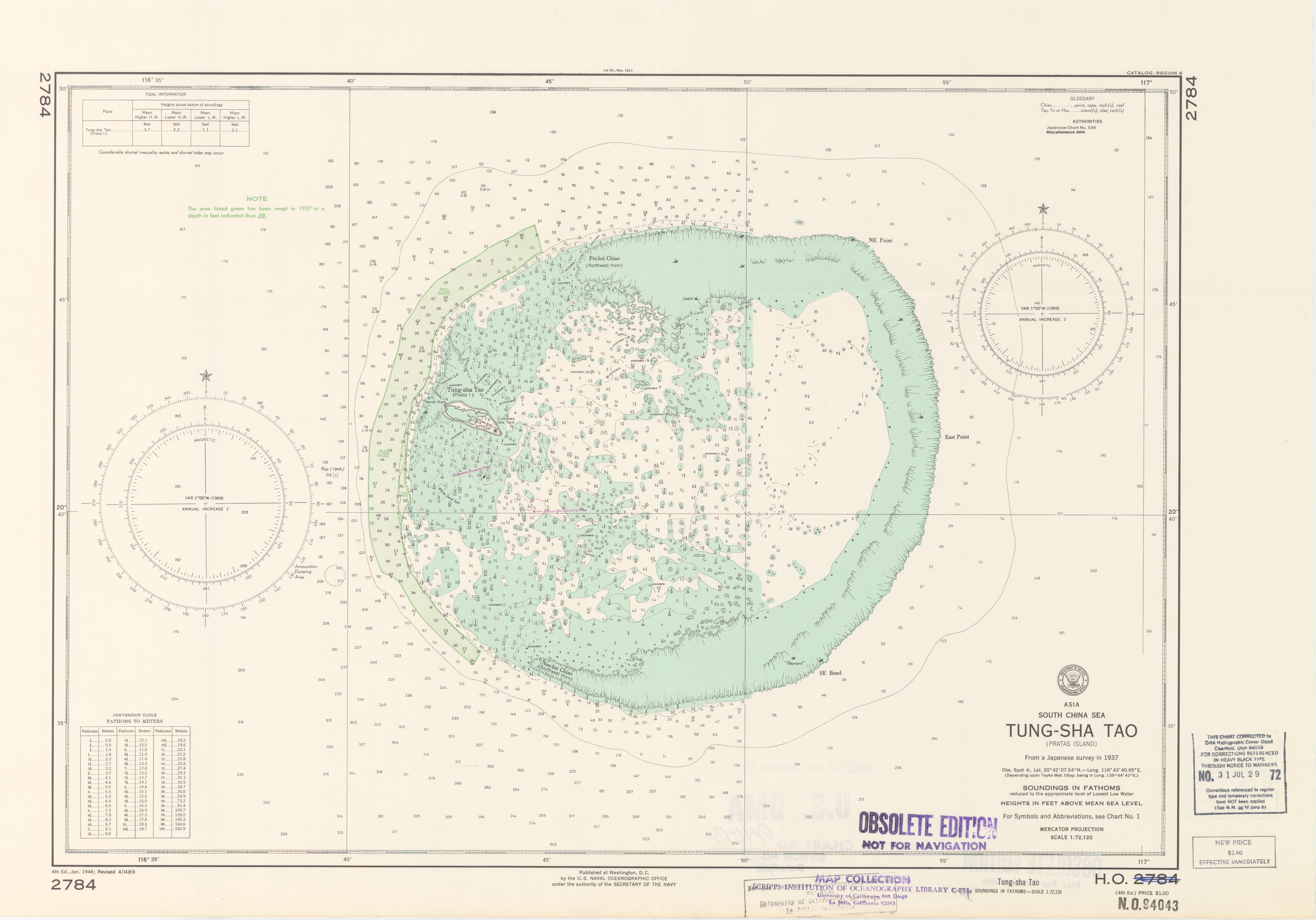 Nautical chart of Pratas Atoll, Dongsha Islands, South China Sea (controlled by Taiwan ROC)